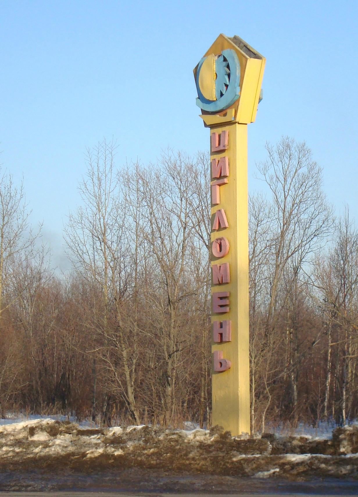 Tsiglomen stele